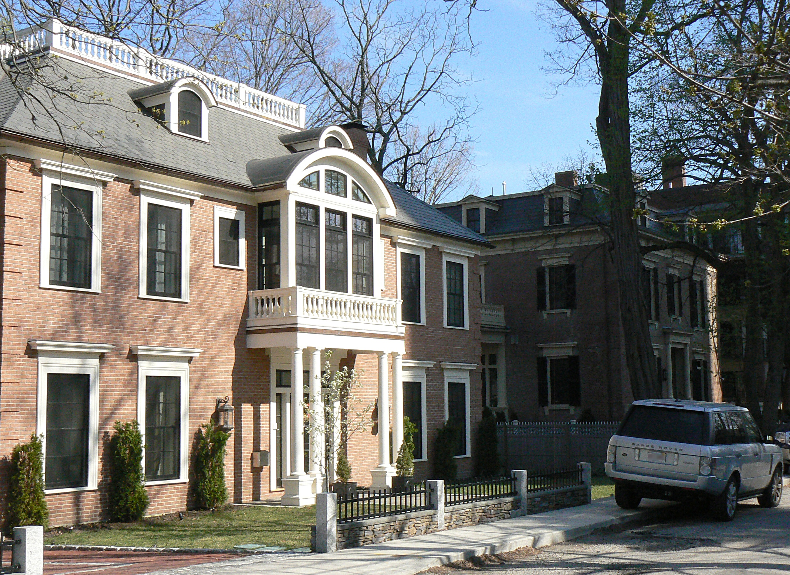 A photograph of Kirkland Place in the Kirkland Place Historic District of Cambridge, Massachusetts.